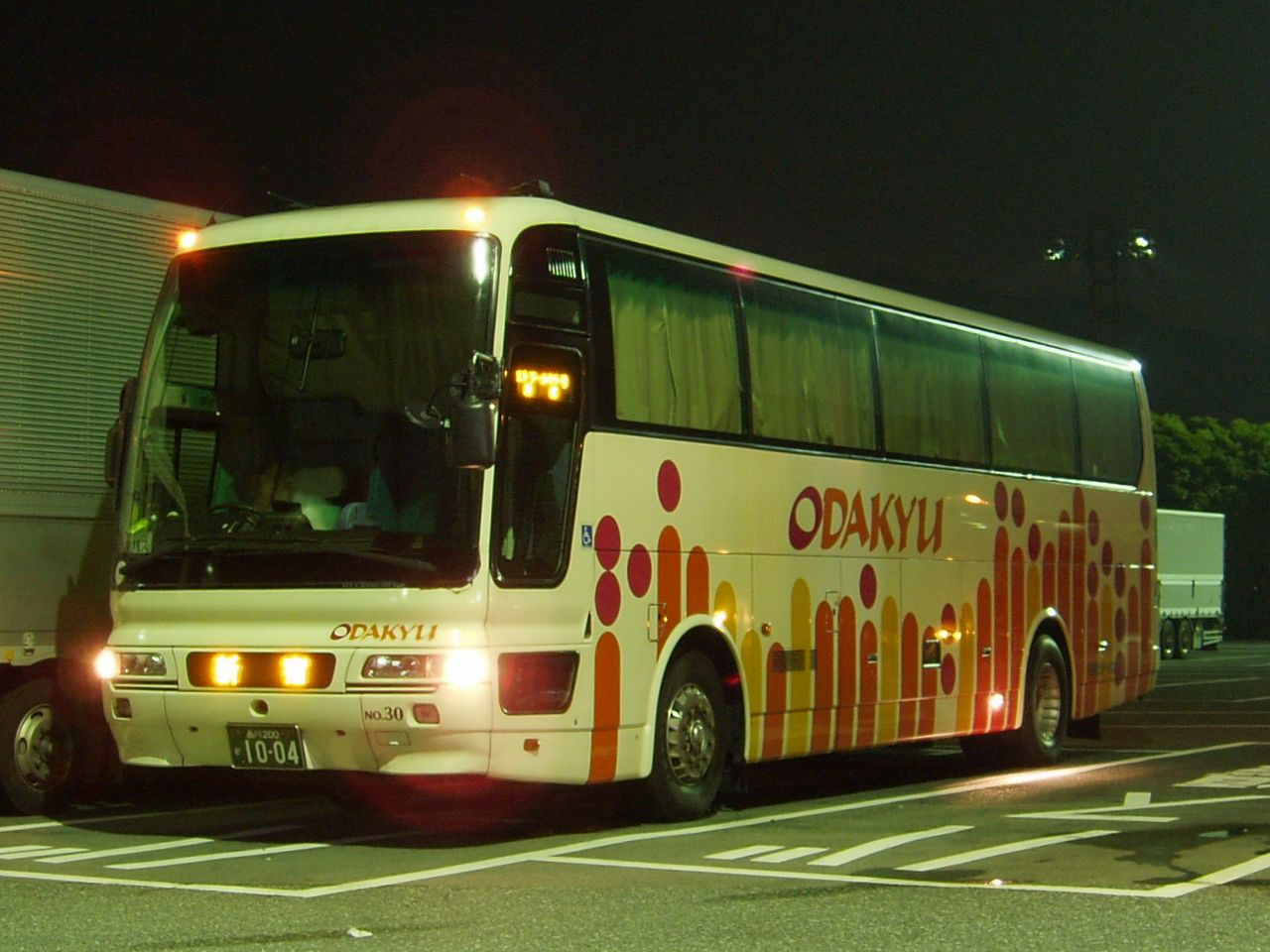 Odakyu City Bus No.30 "Etoile Seto" Mitsubishi KL-MS86MP at Tatsunonishi Service Area